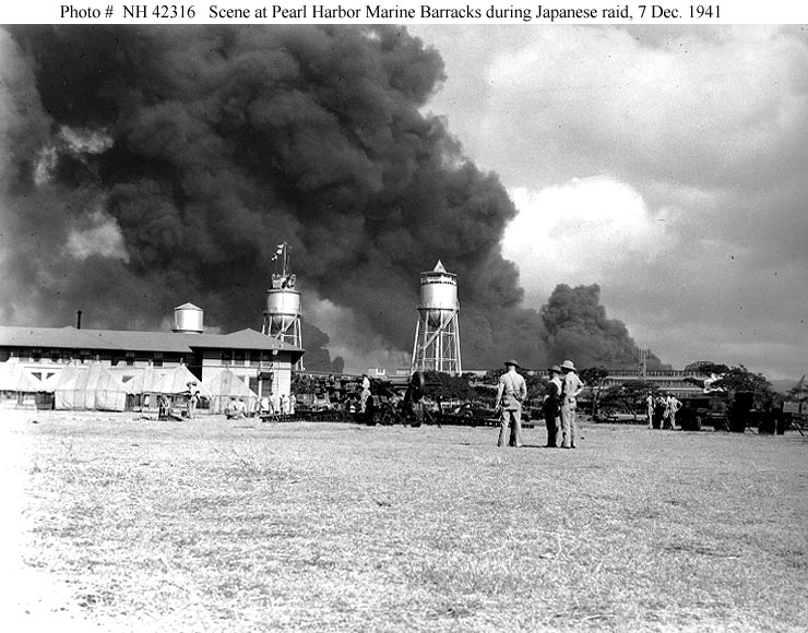 View at the Pearl Harbor Marine Barracks, taken from the Parade Ground between 0930 and 1030 hrs. on 7 December 1941 looking toward "Battleship Row". Smoke rising from the right distance is from the burning USS Arizona (BB-39). Navy Yard water towers are in the left center, with a signal station atop the middle one. In the center of the view, Marines are deploying a three-inch anti-aircraft gun. A temporary wooden barracks building is at left. Taken by a photographer from the Headquarters & Support Company, 2nd Engineer Battalion, Fleet Marine Force. U.S. Naval Historical Center Photograph.